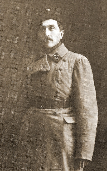 Roman Dashkewycz Ukr. Роман-Микола Іванович Дашкевич (1892-1975) Ukrainian politician and military. Here in uniform of an officer of Ukrainian Sich Riflemen (1918-19)